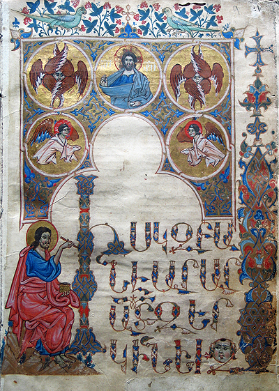 Gospel of Shukhonts